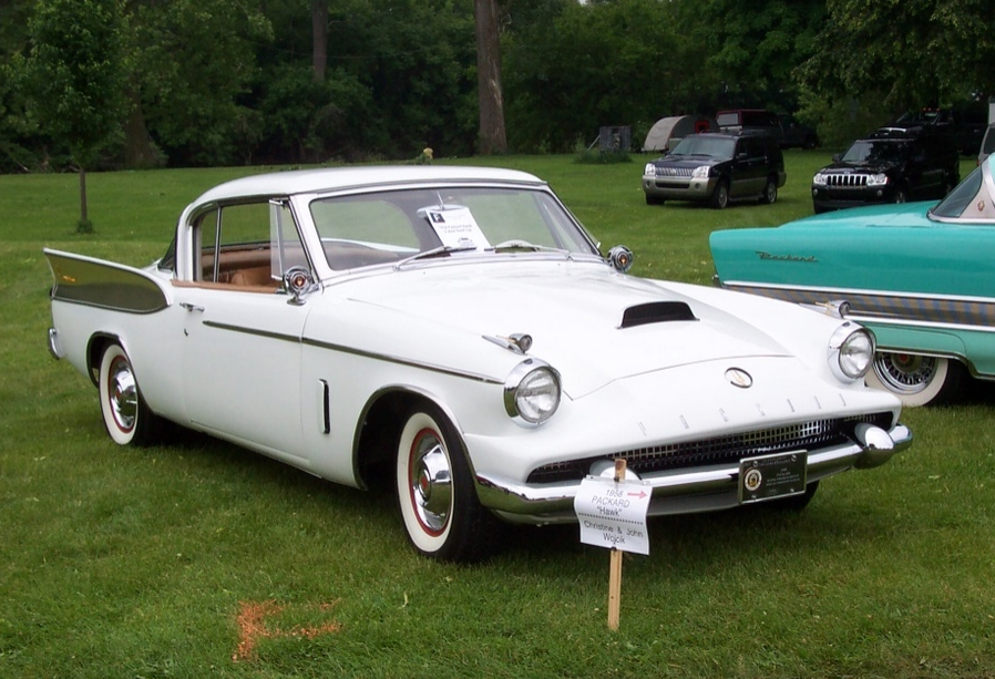 Orphan Car Show, Ypsilanti Michigan 2007